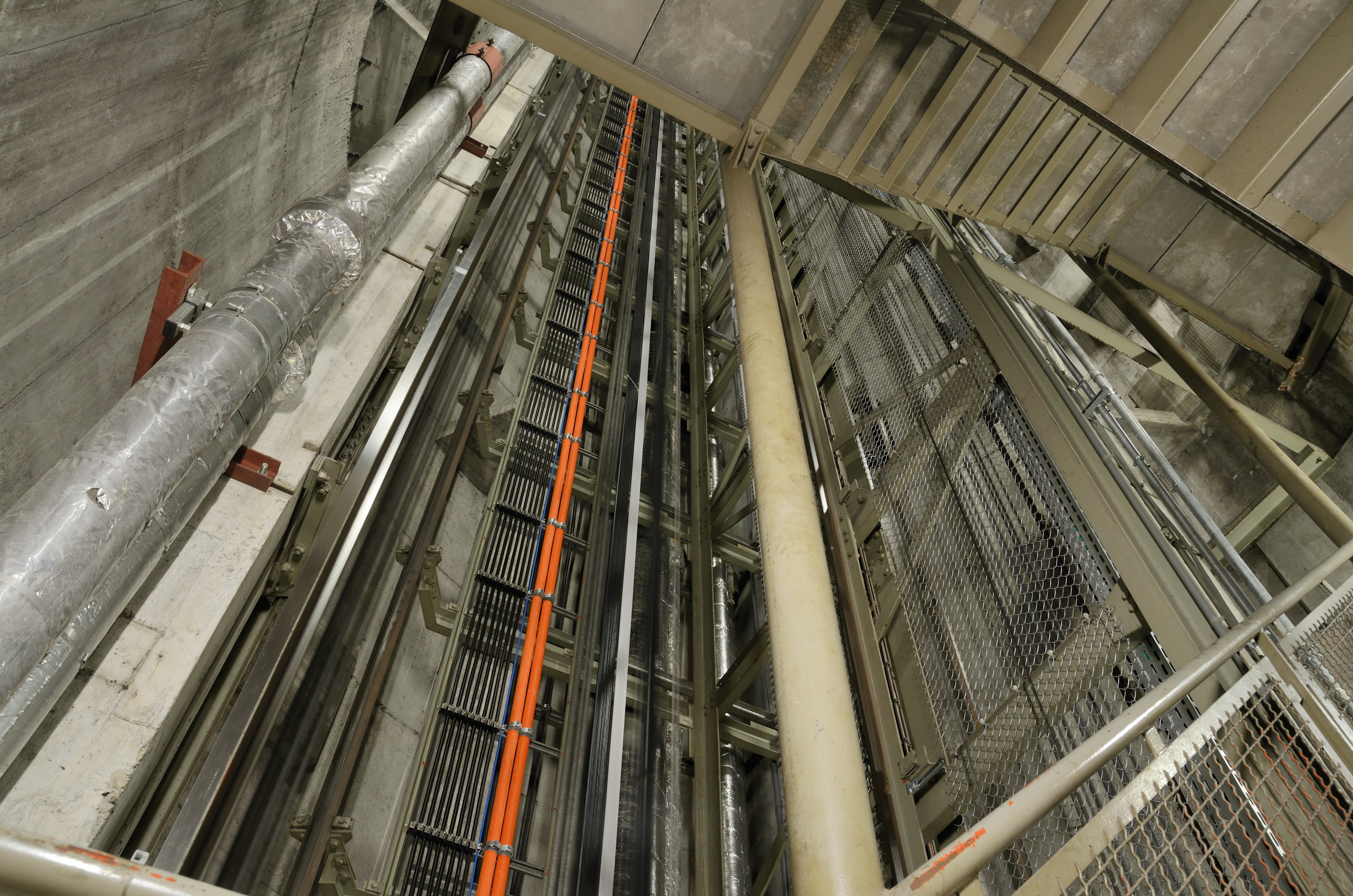 Television Tower Stuttgarter: shank from interior